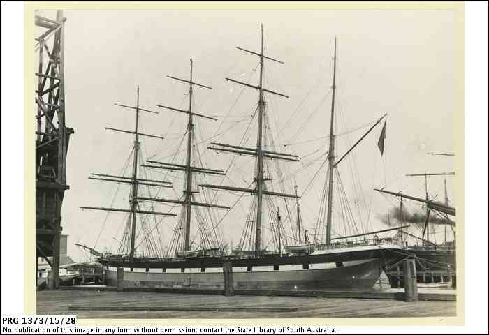 Creator unknown. Black and white photograph of the 'Loch Moidart' in an unidentified port. Loch Moidart was one of the ships owned by The 'Loch' Line / Aitken, Lilburn and Co., Glasgow. Item held by the State Library of South Australia as part of the A.D. Edwardes Collection. Image number PRG 1373/15/28. Date states probably taken in 1894, but more likely late 1880s, as Loch Moidart sank in 1890.